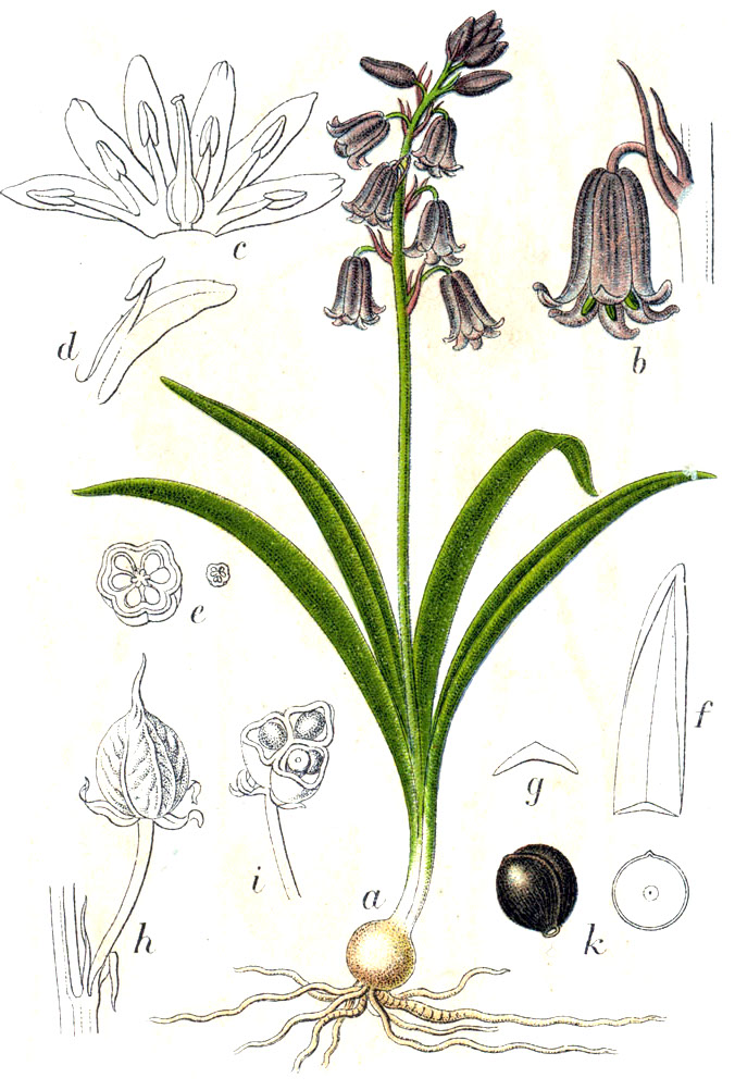 Hyacinthoides non-scripta (L.) Chouard ex Rothm., syn. Hyacinthus non-scriptus L. Original Caption Belgische Hyazinthe, Hyacinthus nonscriptus